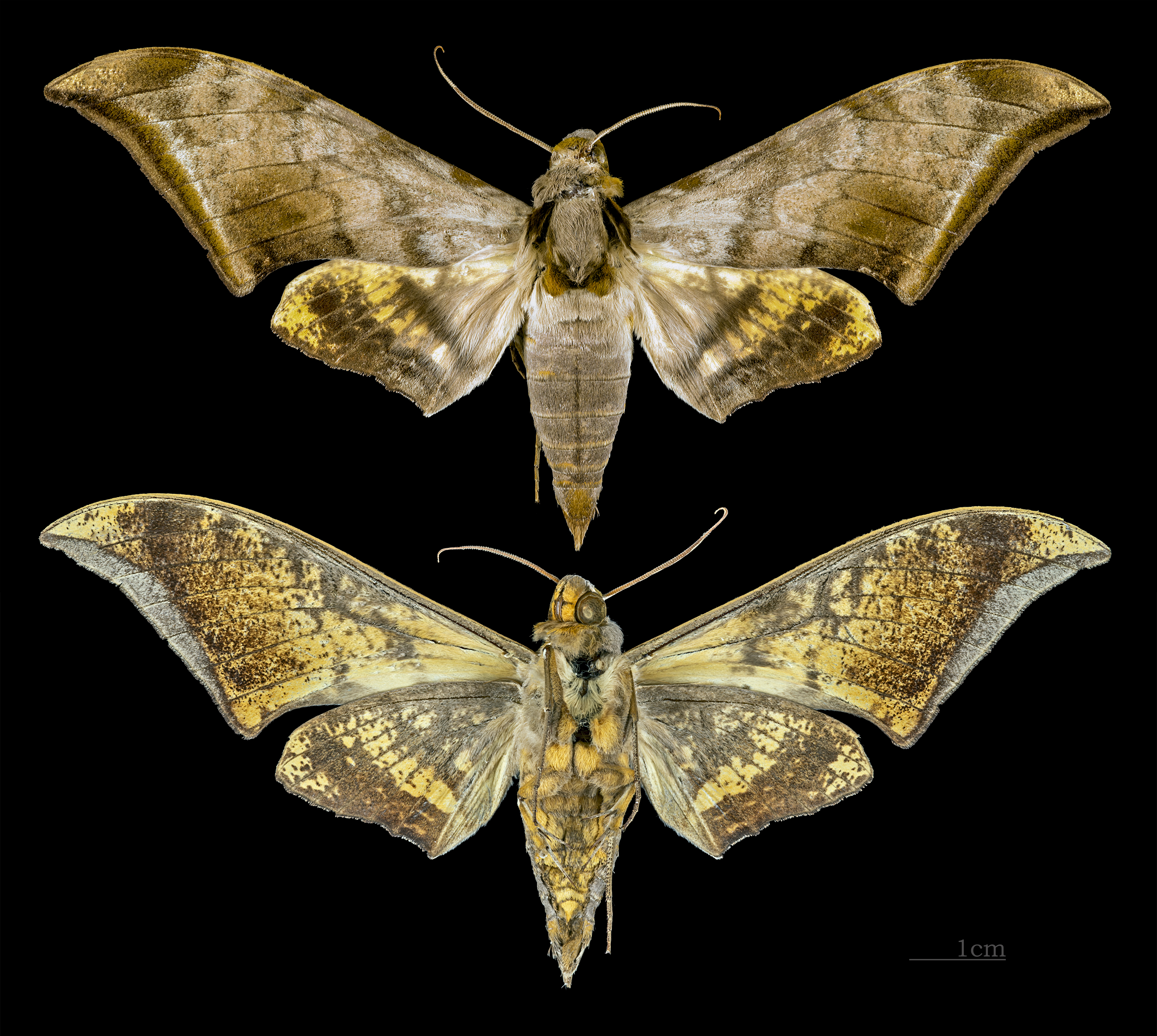 Ambulyx jordani - Two views of same specimen Collection of the Mathematician Laurent Schwartz